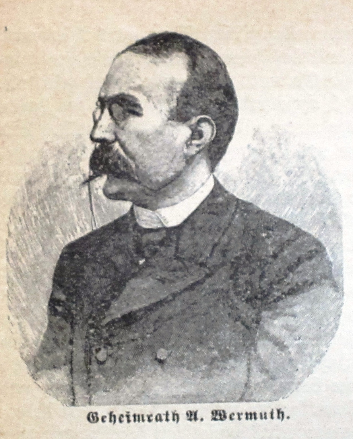 Adolf Wermuth